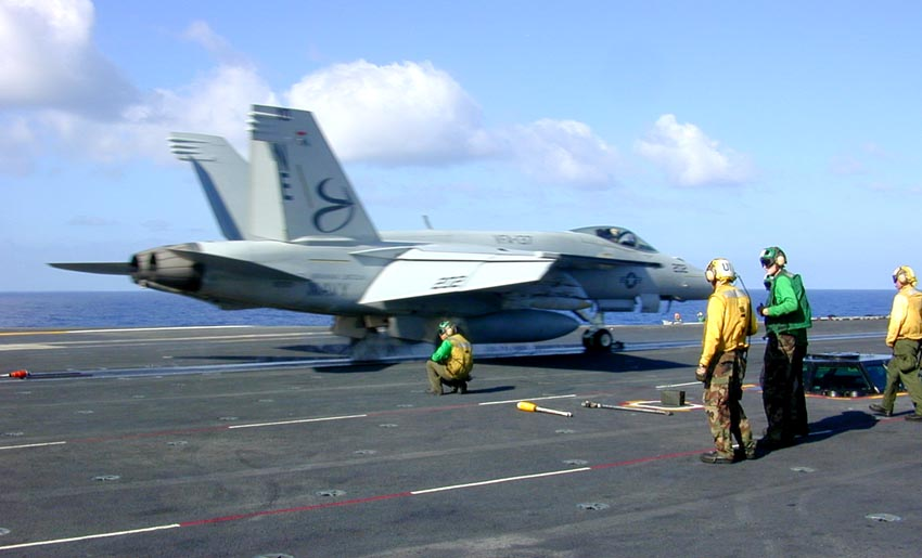 An F-18 just after being released out of aircraft catapult on the deck of the USS Abraham Lincoln (CVN-72), November 2004. Photographed by Eric Guinther.